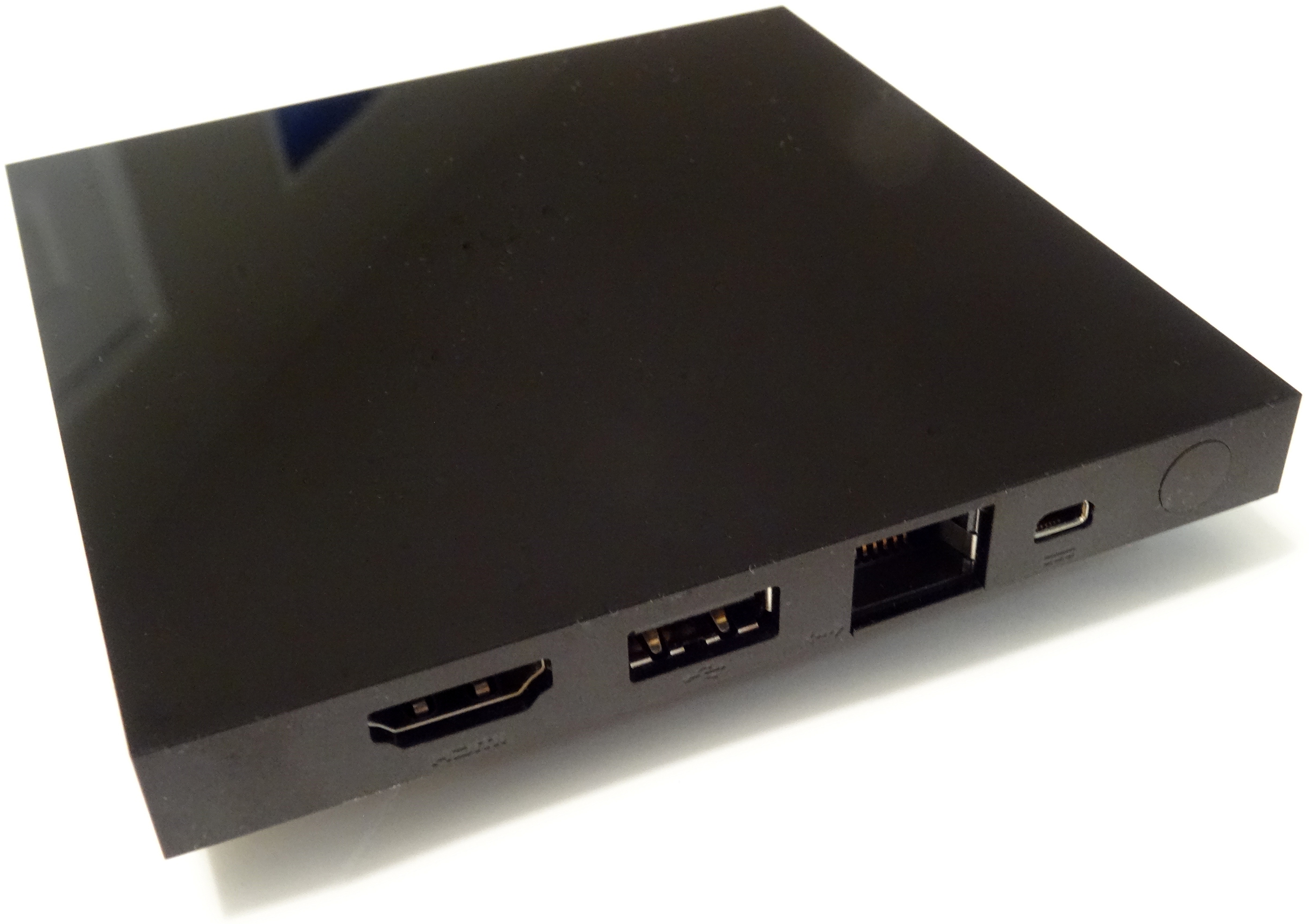 Android TV